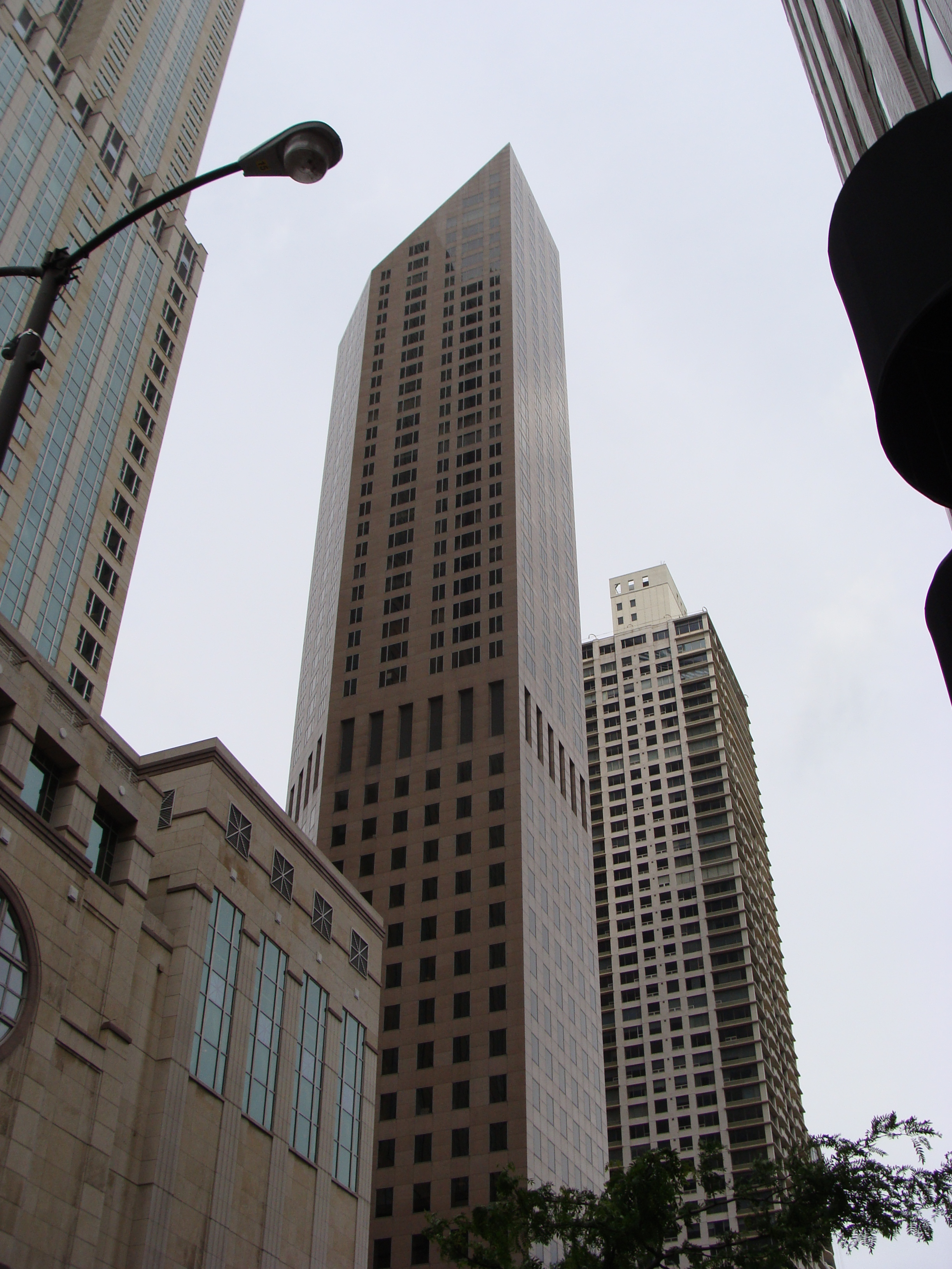 One Magnificent Mile in Chicago, taken from Michigan Ave and Delaware Pl. The angle is so steep that the tallest tower of the building is obscured by the nearer, shorter tower.